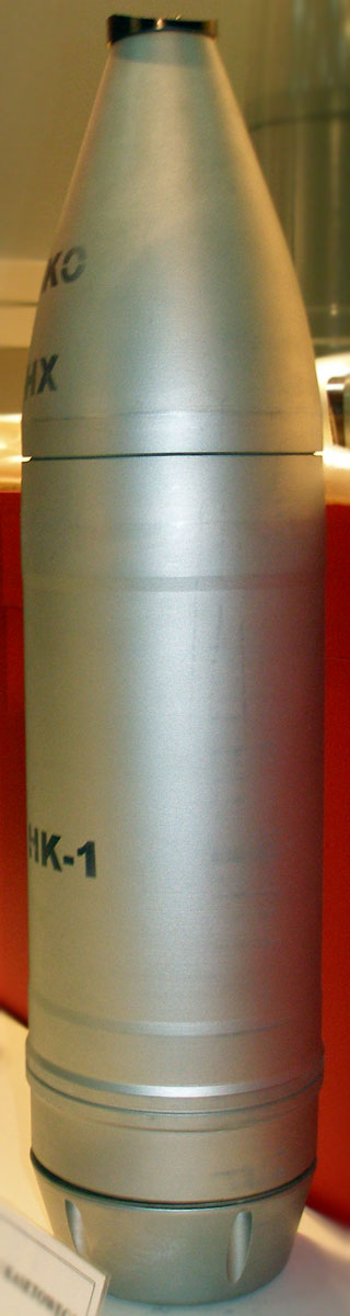 Hesyt-1